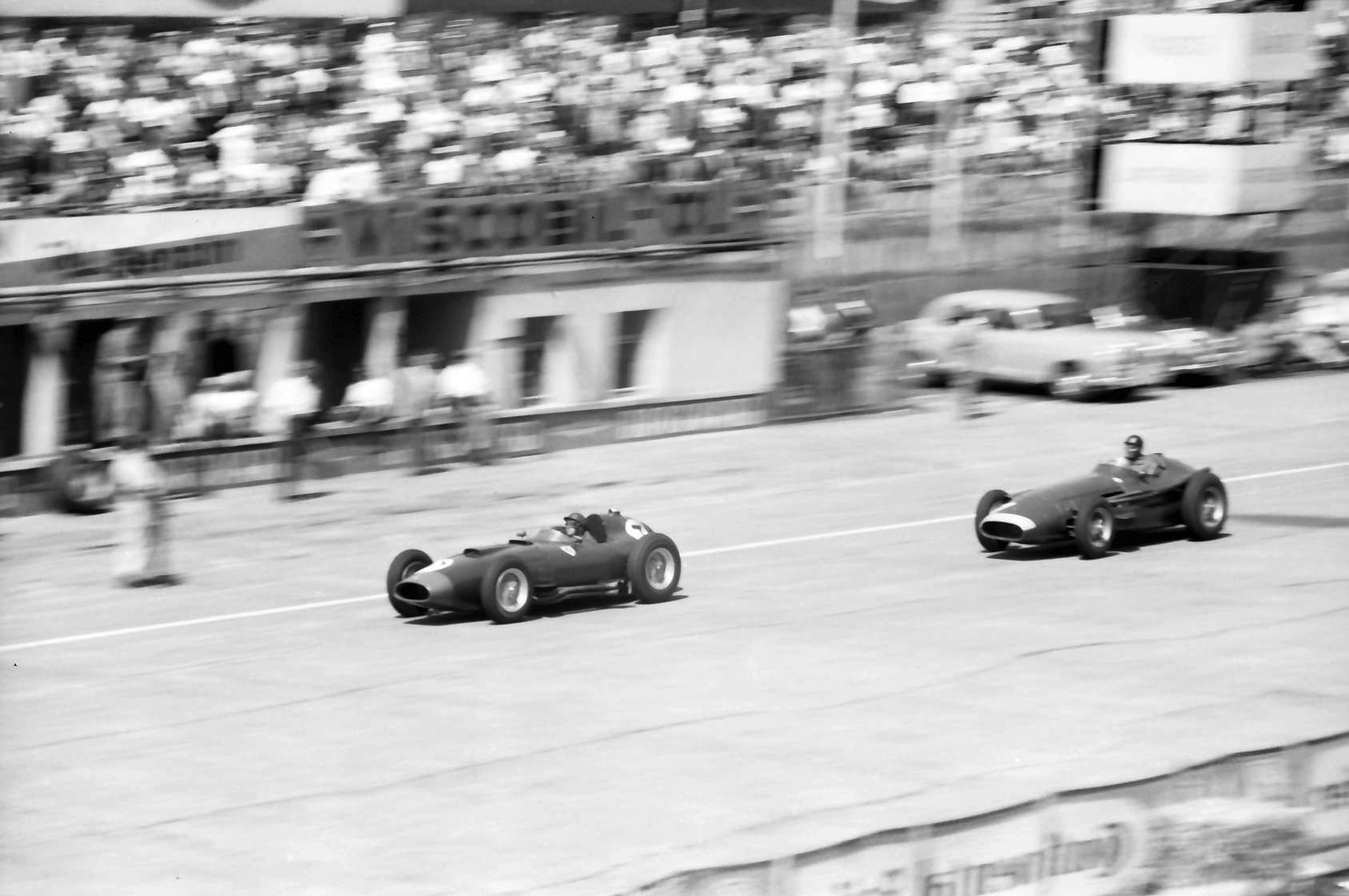 Eventual race winner, Juan Manuel Fangio (Maserati 250F, #1), in pursuit of Peter Collins (Ferrari 801, #7), during the 1957 German Grand Prix at the Nürburgring, West Germany.